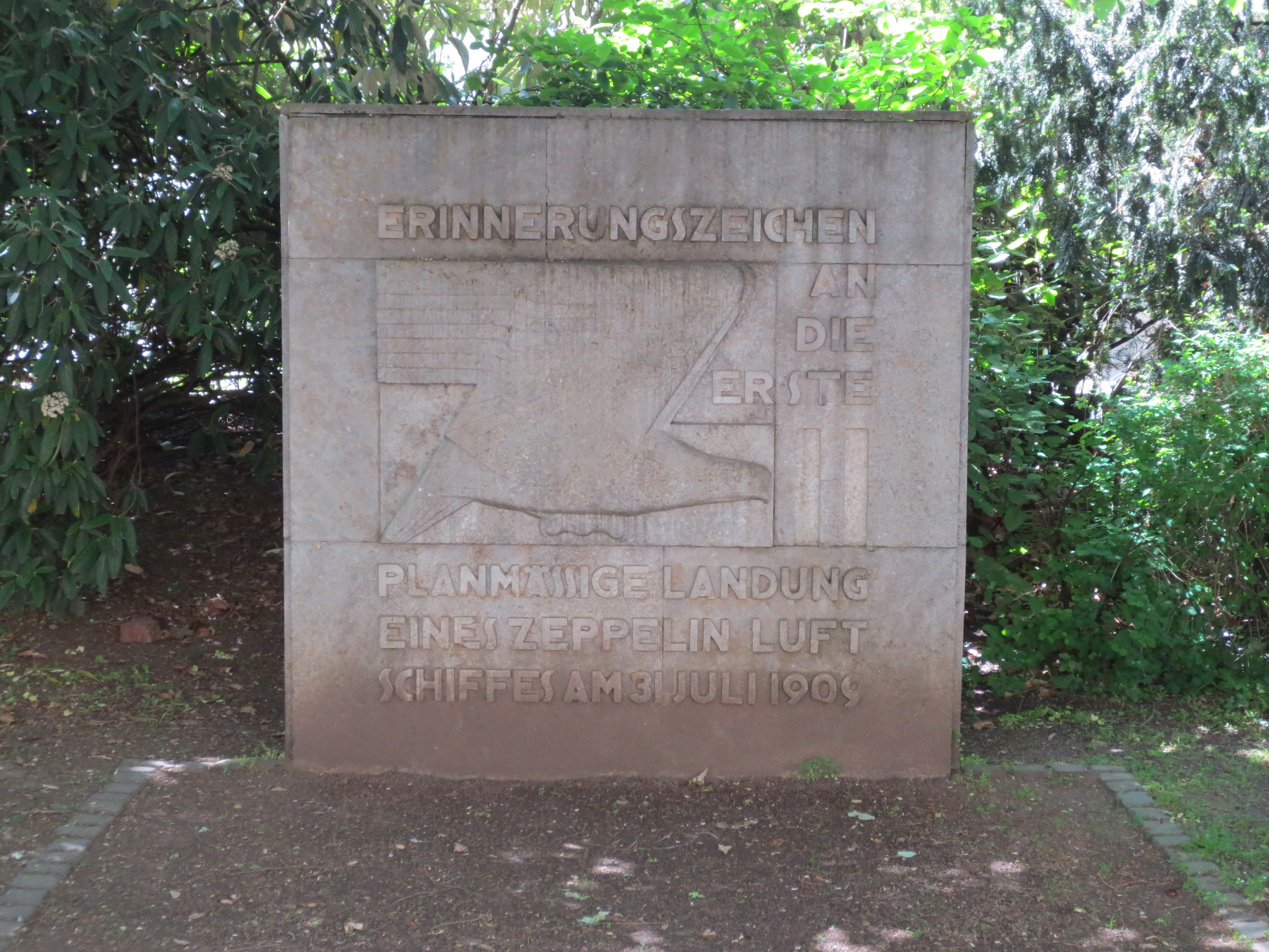 Zeppelin memorial stone in Frankfurt am Main